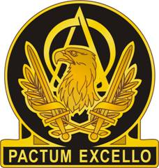 US Army Aquisition Corps Regimental Insignia